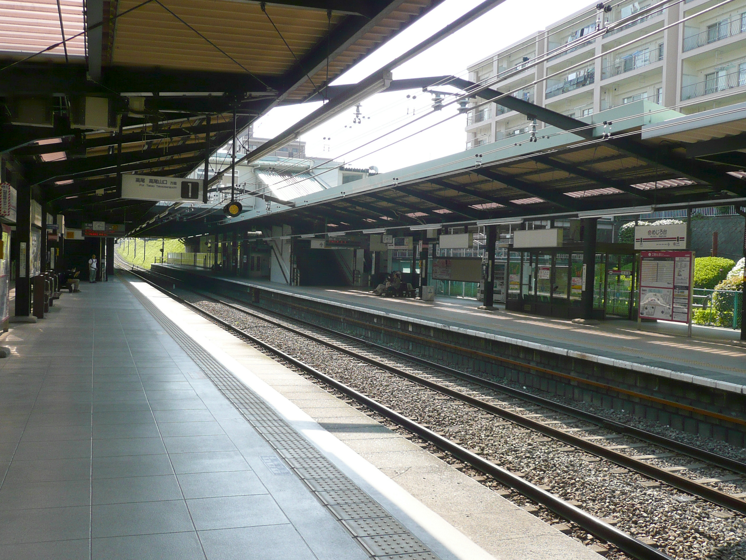 Platforms of Mejirodai Station